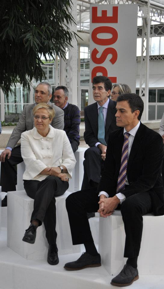 Presentación de la candidatura de Madrid a Cortes Generales del PSOE 2011